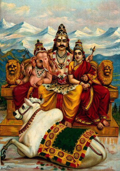 "Shiva, Parvati and Ganesha enthroned on Mount Kailas with Nandi the bull."